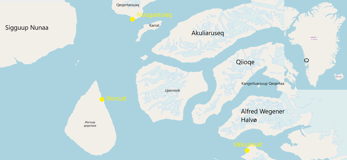 Map of Upernivik-Qiioqe-Illorsuit-Akuliaruseq